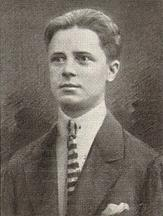 Portrait of IMRO member Kiril Gligorov Keleshov